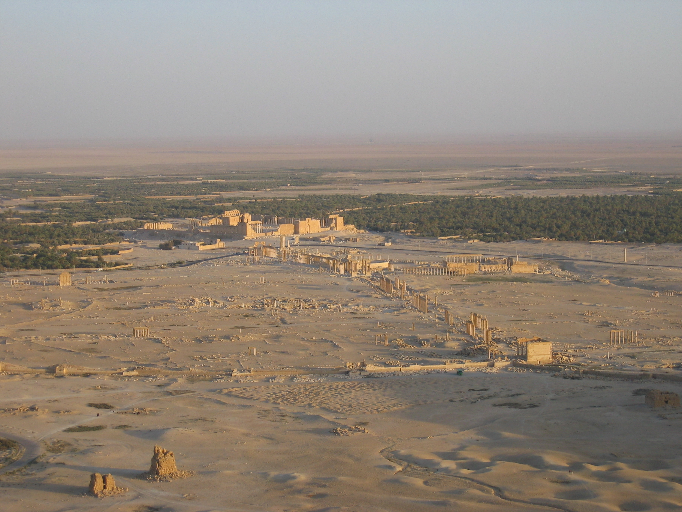 View on the Roman City of Palmyra with Bel/Baal Temple, Palmyra, Syria Ausblick auf die Reste der römischen Stadt Palmyra mit dem Baal Tempel im Hintergrund, Palmyra, Syrien